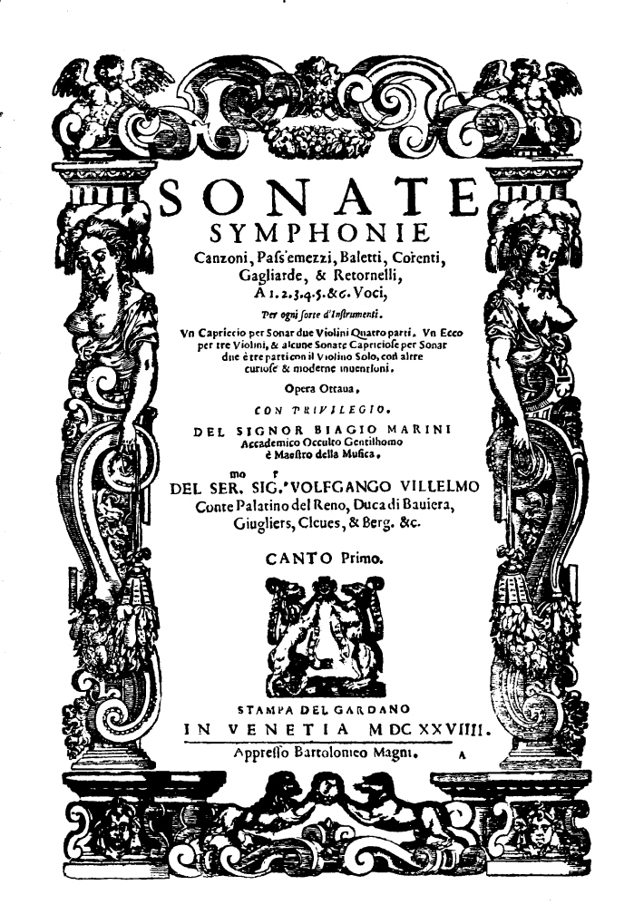 Biagio Marini. Collection op.8, title page of the original ed. (Venice, 1629)